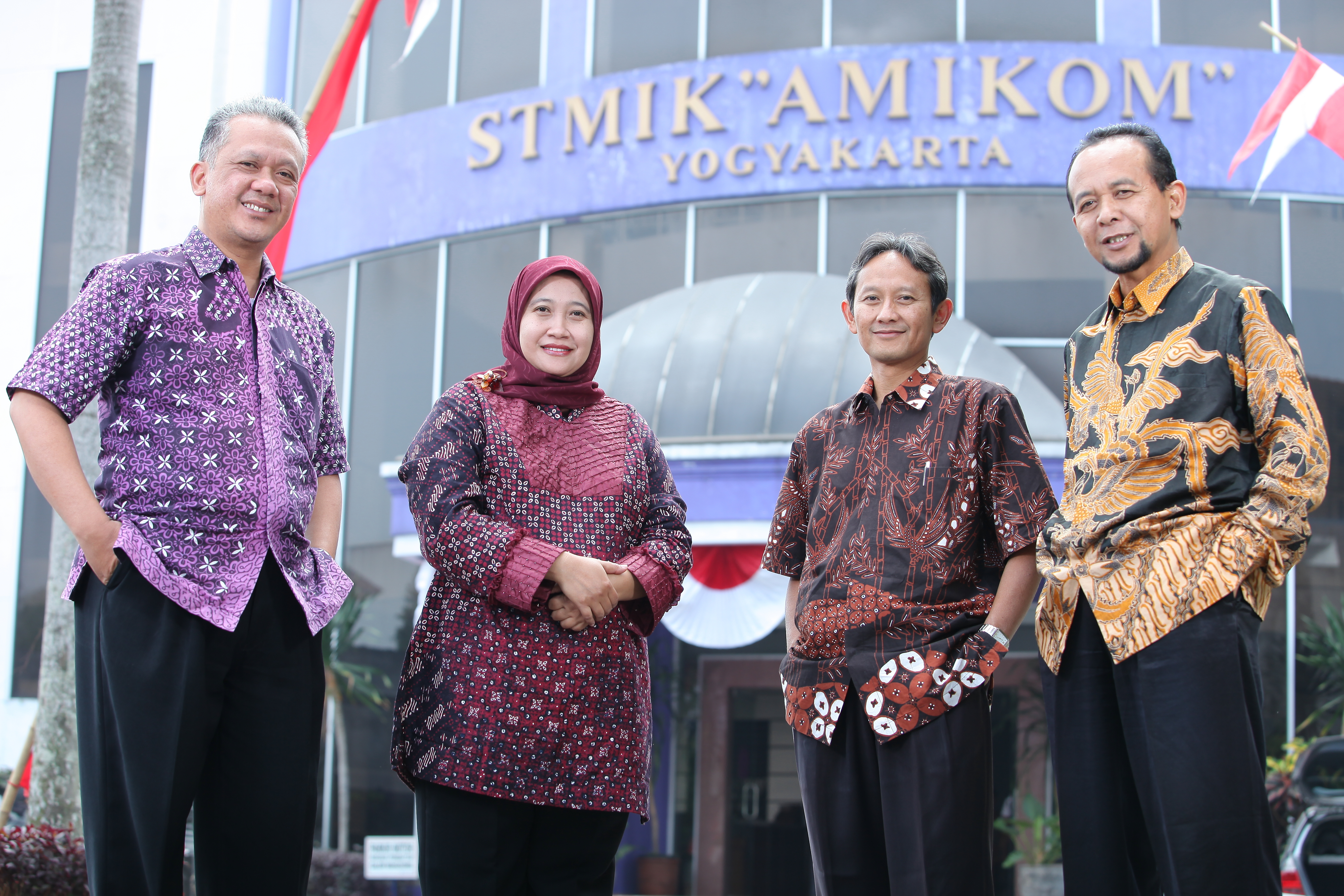 Leaders of College